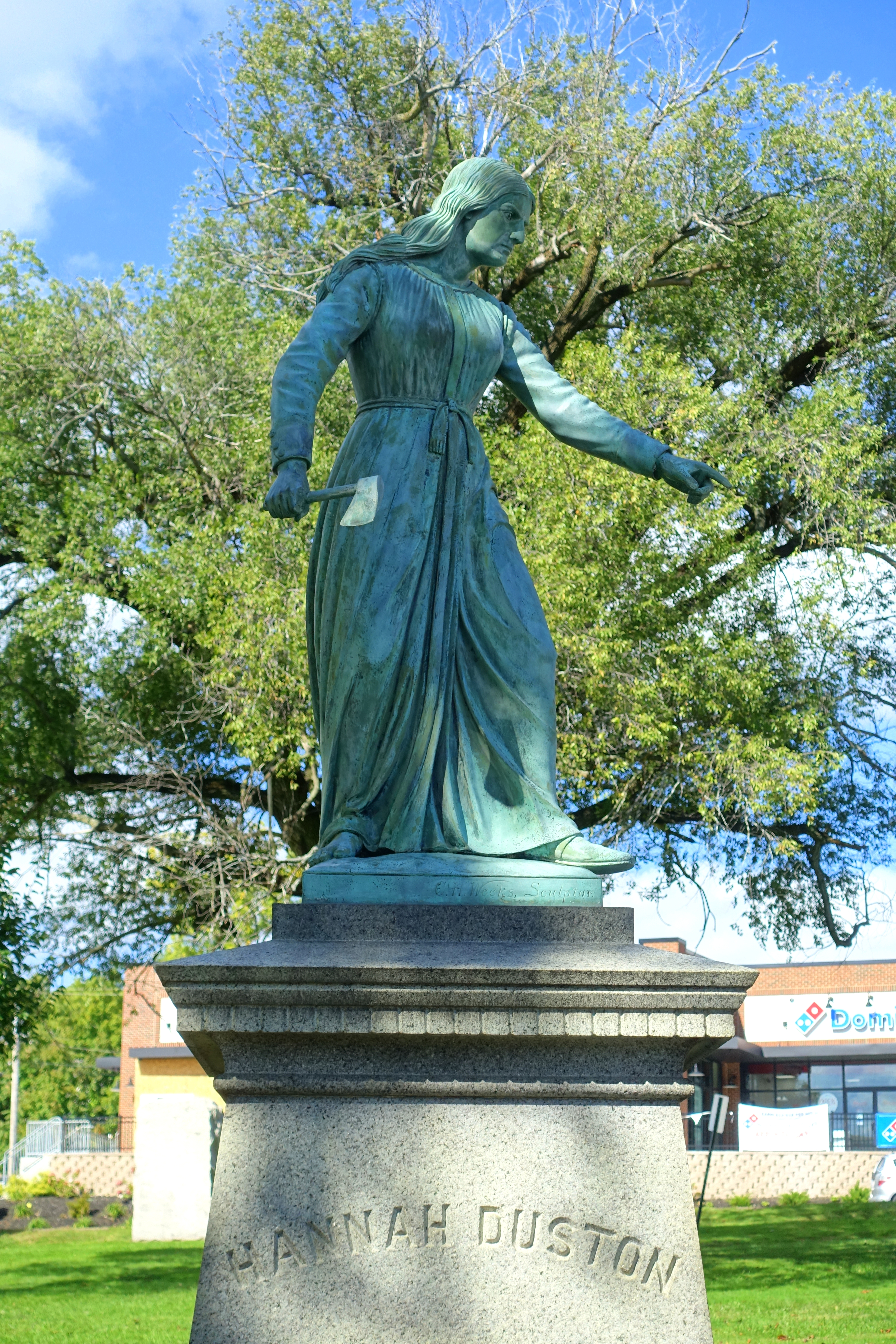 Hannah Duston Monument, by Calvin H. Weeks, 1879 - Haverhill, Massachusetts, USA.